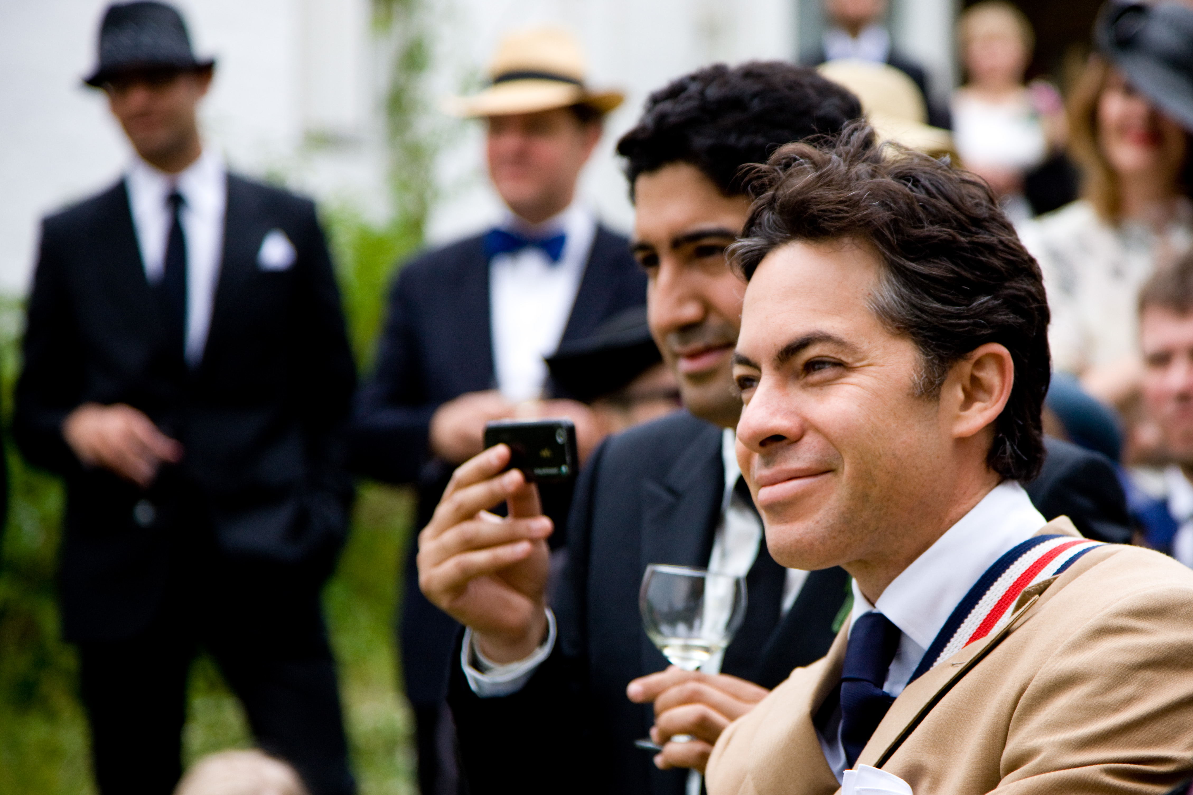 Joshua Cooper Ramo with Tariq Krim in background